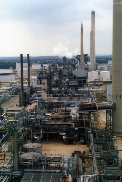 Inside Fawley oil refinery A line of chimney stacks